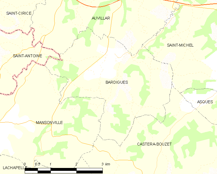 Map of French municipality Bardigues